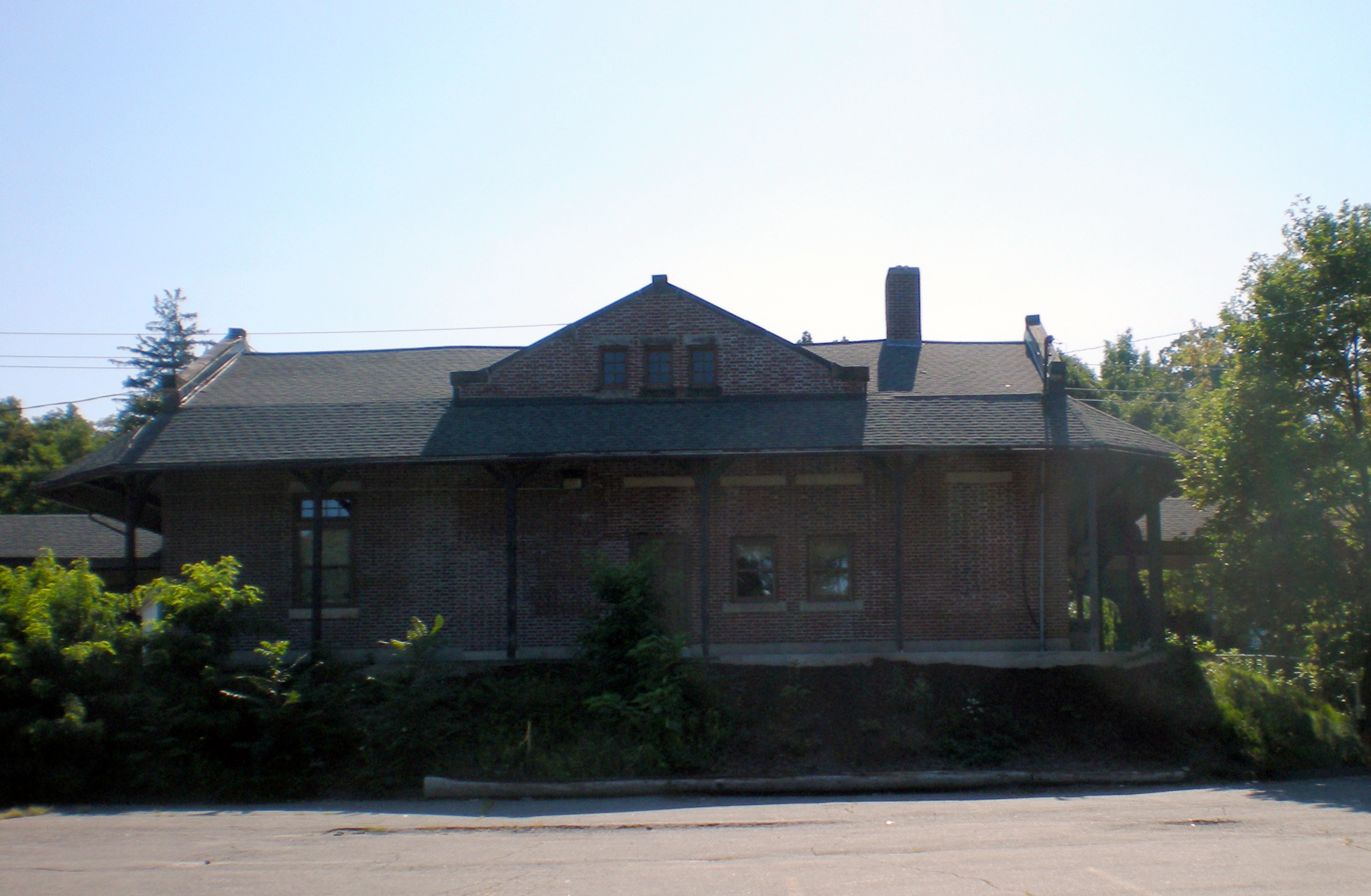 Former train station on Railroad Avenue in Methuen, Massachusetts